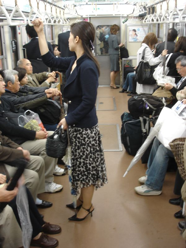 Office lady in Tokyo subway